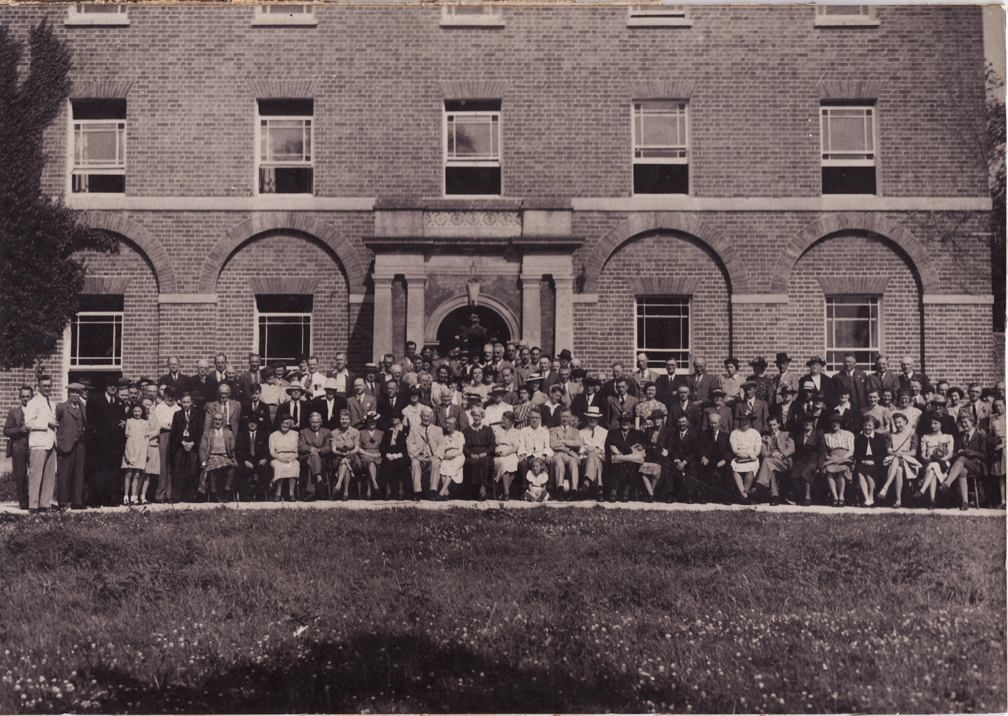 A photograph of The Monmouthshire Bee Keepers Association meeting Held at Whitson Court, Whitson, Newport, Monmouthshire c.1941